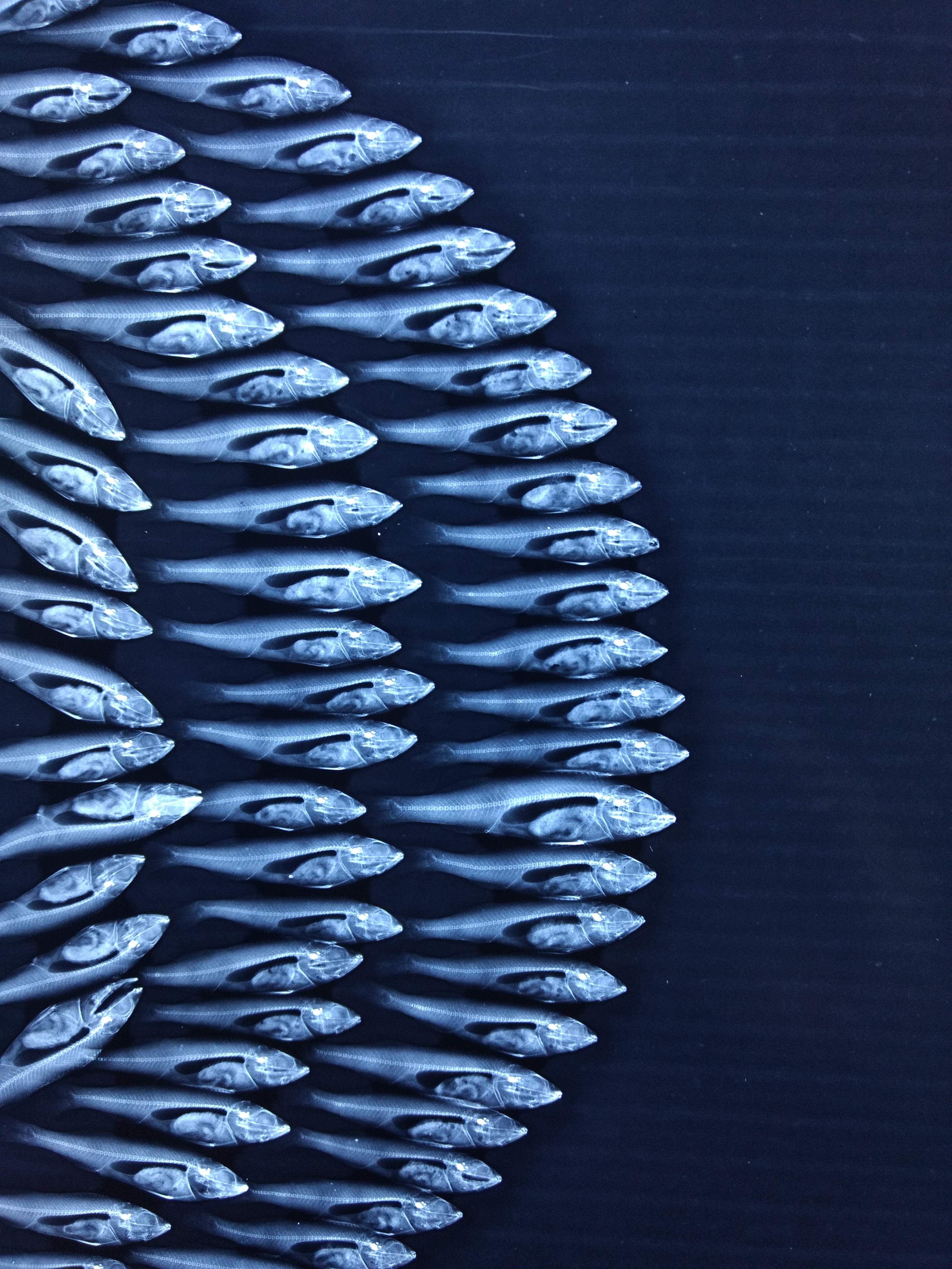 Low energy X-rays (mastography) are used to control the quality of farmed perch (Perca fluviatilis) fingerlings at Valperca, the first aquaculture facility to produce 100% Swiss grown perch.